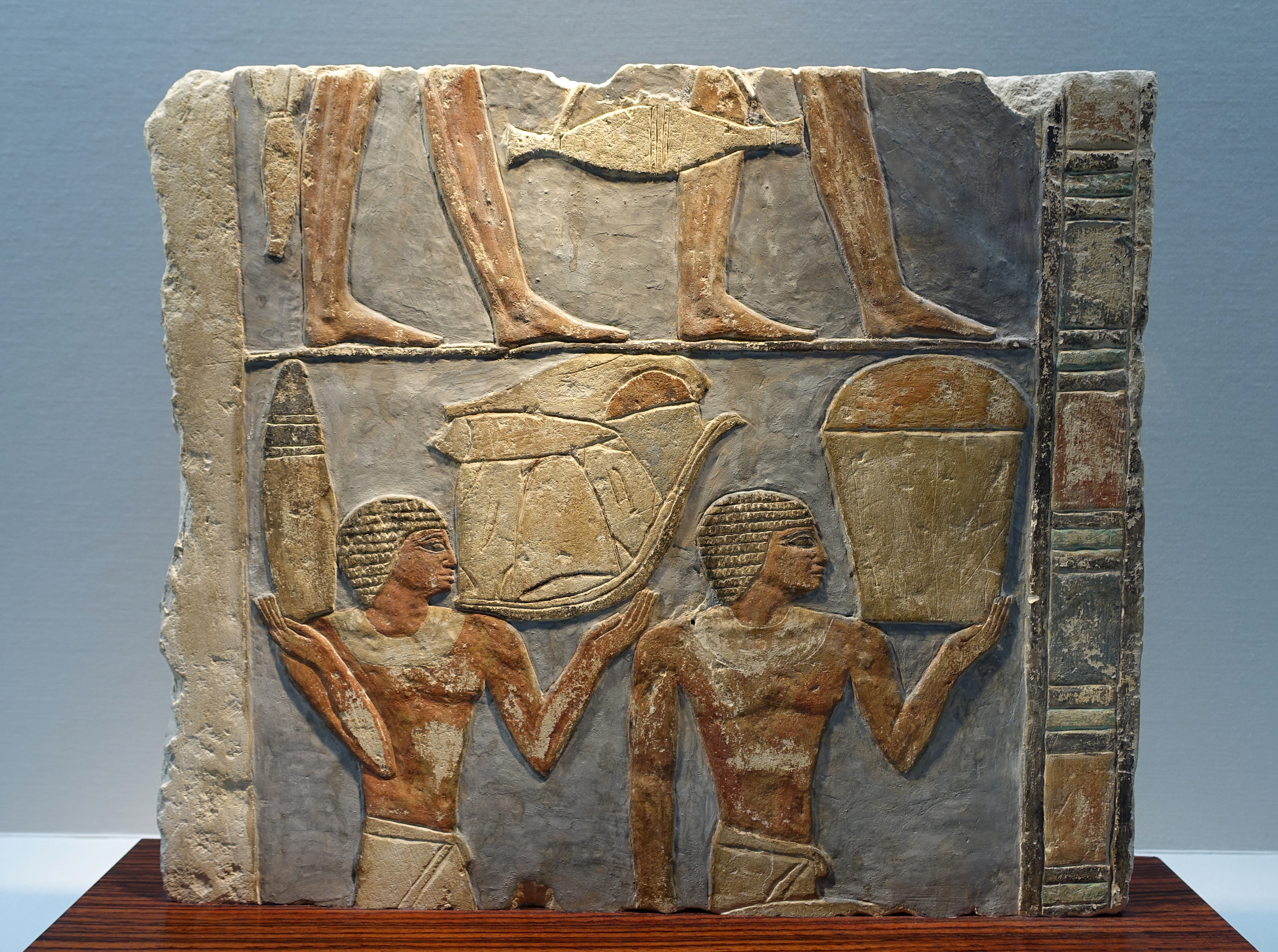 Exhibit in the Matsuoka Museum of Art - 5 Chome-12-6 Shirokanedai, Minato, Tokyo 108-0071, Japan.